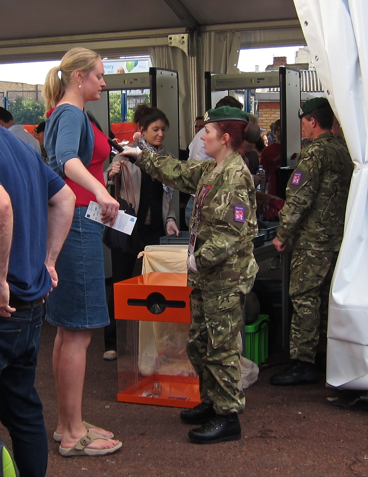 Volleyball player undergoes a security check at the ExCeL Exhibition Centre, London, during the 2012 Summer Olympics